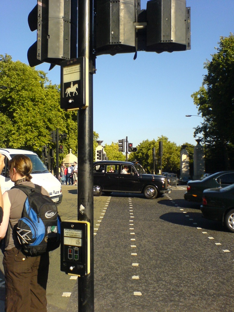 Pegasus crossing control panels and lane markings crossing over to Constitution Hill